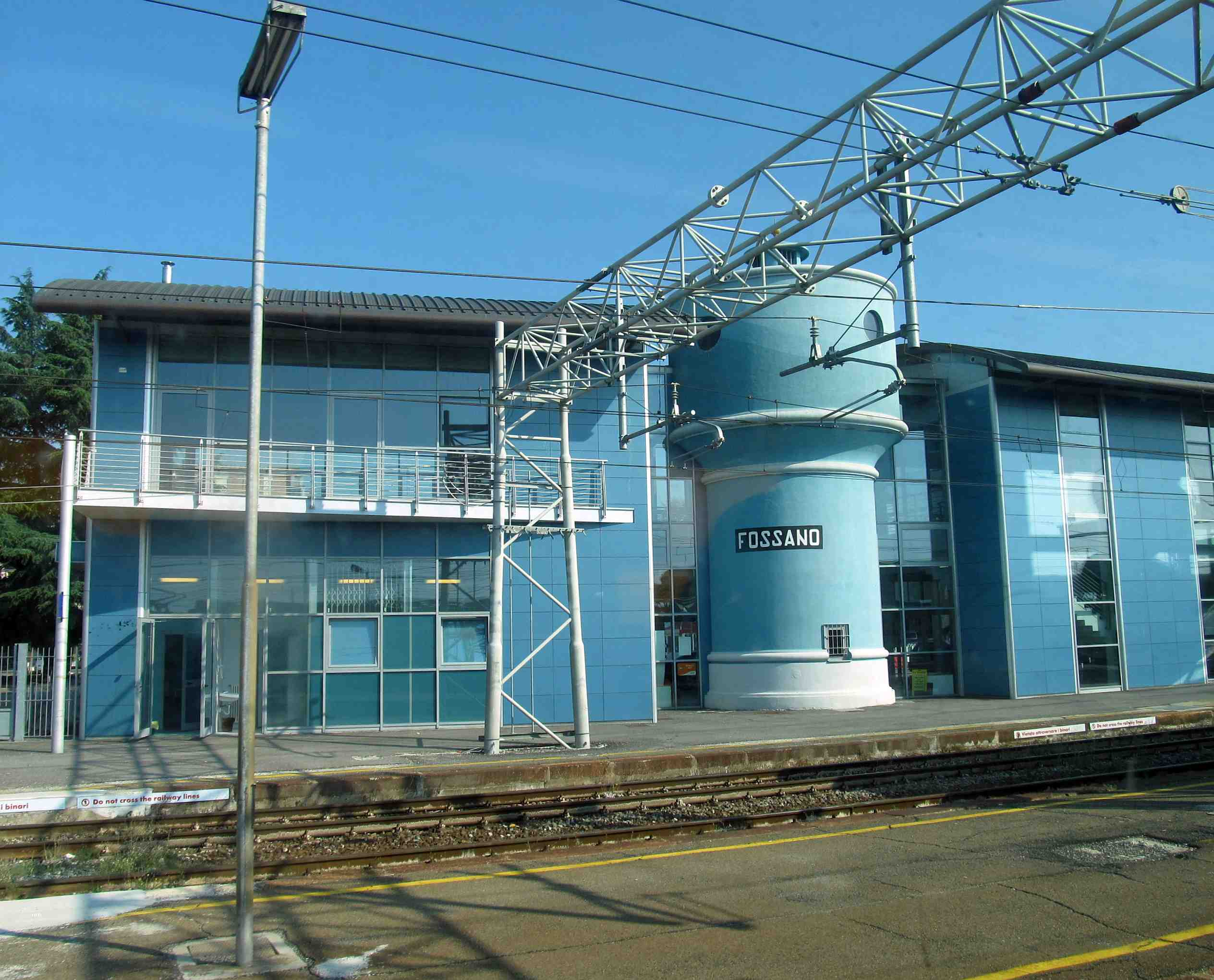 Fossano train station: new buildings